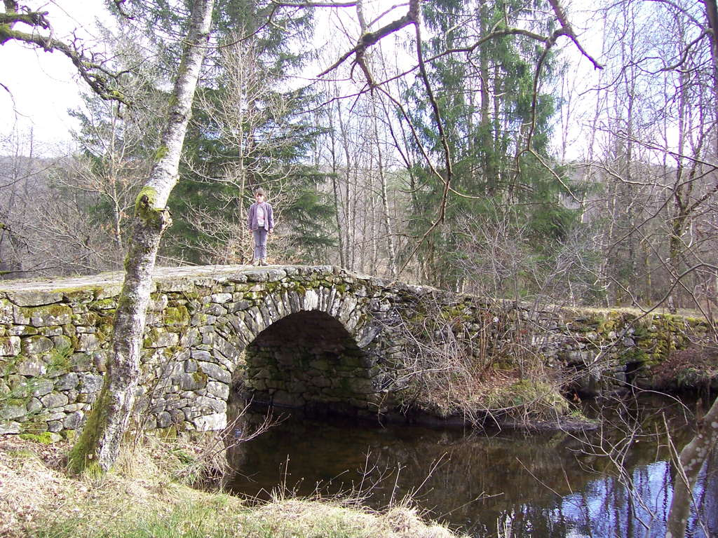 View of the Variéras bridge on Ars river in Pérols-sur-Vézère (Corrèze), at an altitude of 763m.